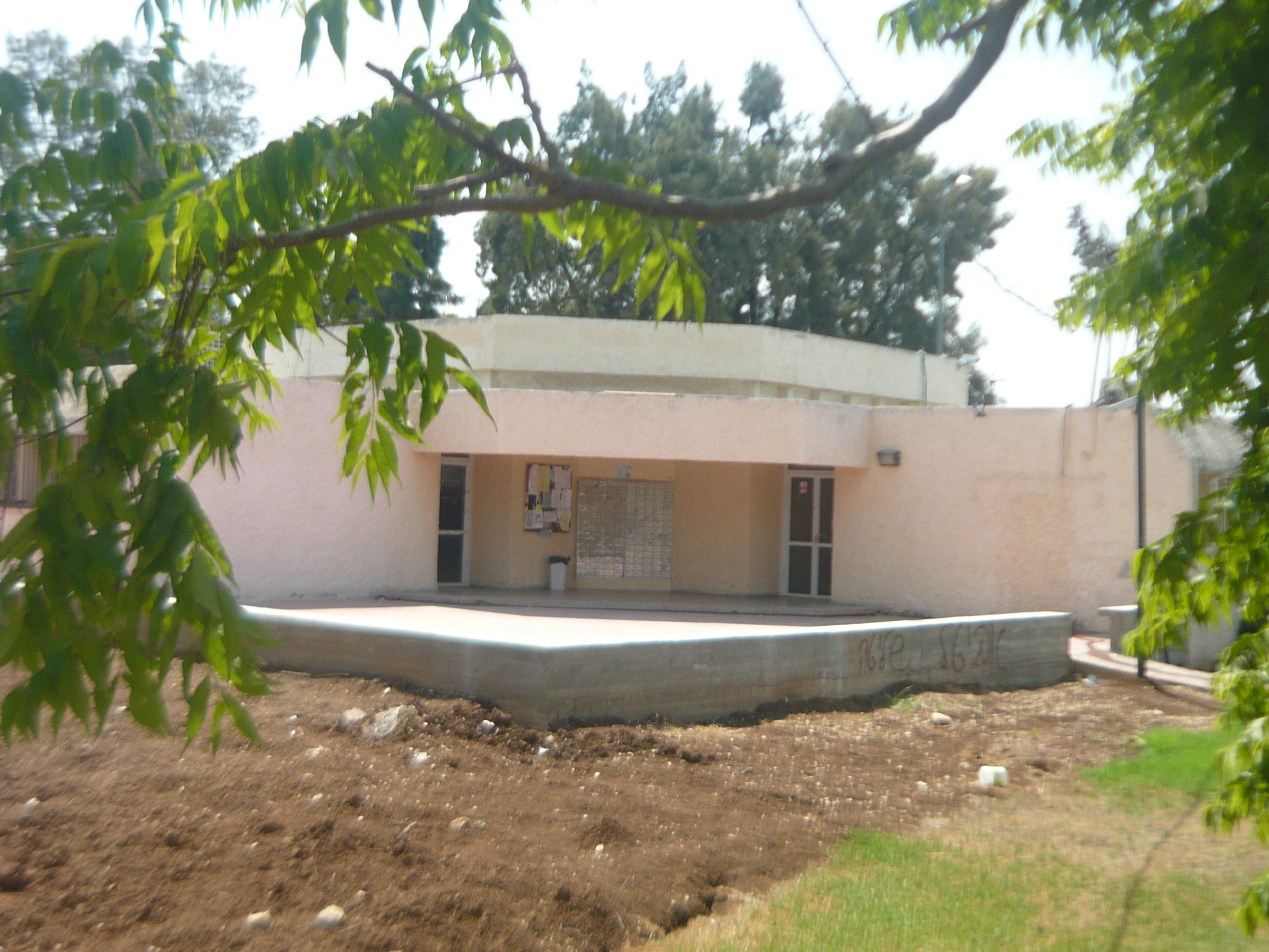 moshav avital מזכירות מושב אביטל